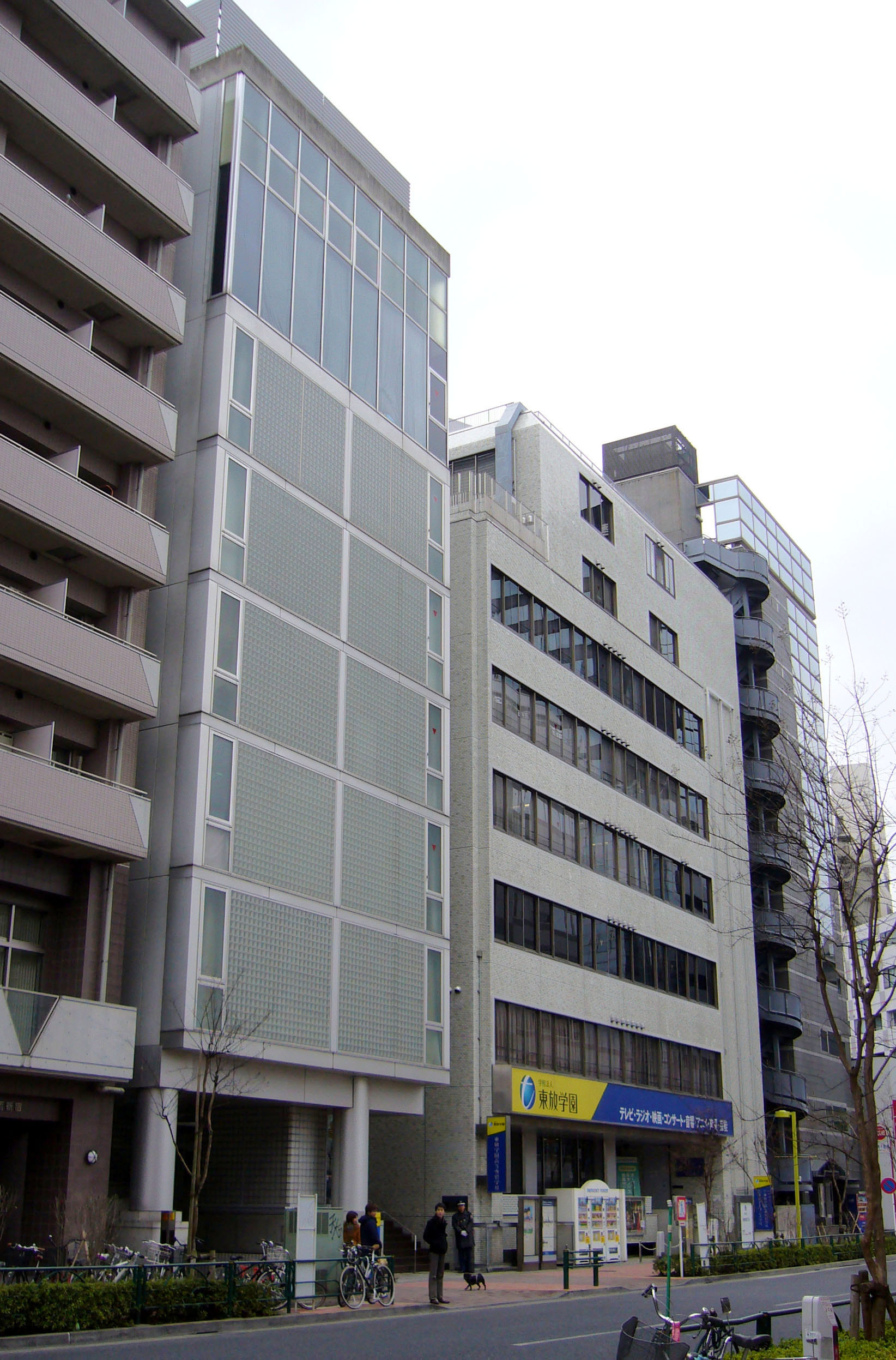 Toho Gakuen Upper Secondary Vocational School (left) and Shinjuku Laboratory (right) (Tokyo, Japan)